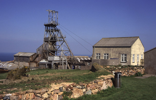 Geevor Mine, Victory Shaft An excellent preserved complex. I first sneaked in to this complex in 1982 to photograph the old steam winder. The site was still working and the electric winder could be heard hard at work.